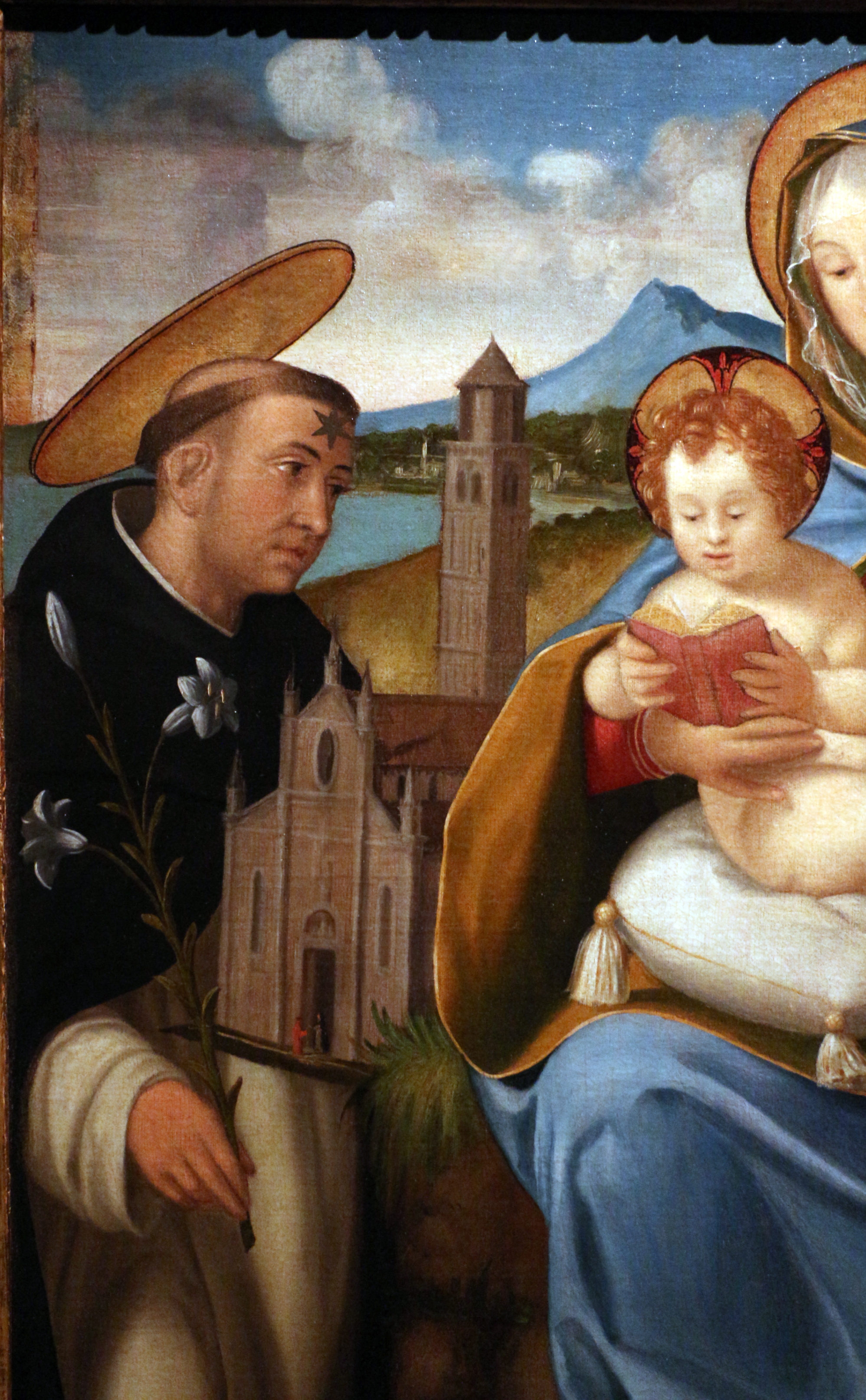 Museo Adriano Bernareggi